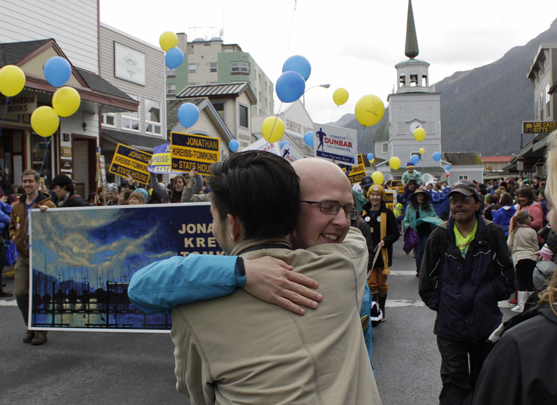 Rep. Jonathan Kreiss-Tomkins embraces a spectator along the Alaska Day parade route Saturday, Oct. 18, 2014 in Sitka. (James Brooks photo)